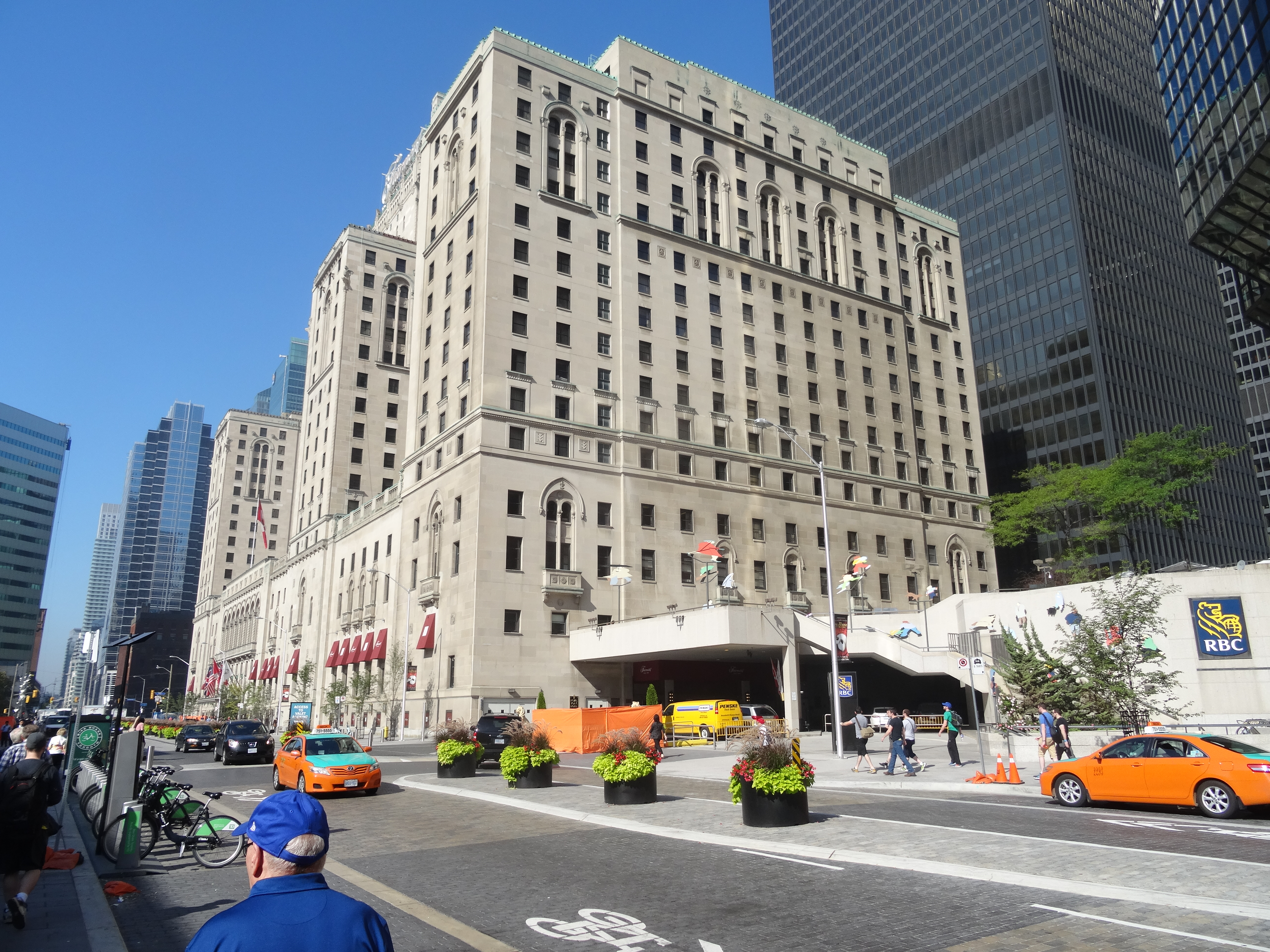 Royal York Hotel, 2015 09 23.JPG